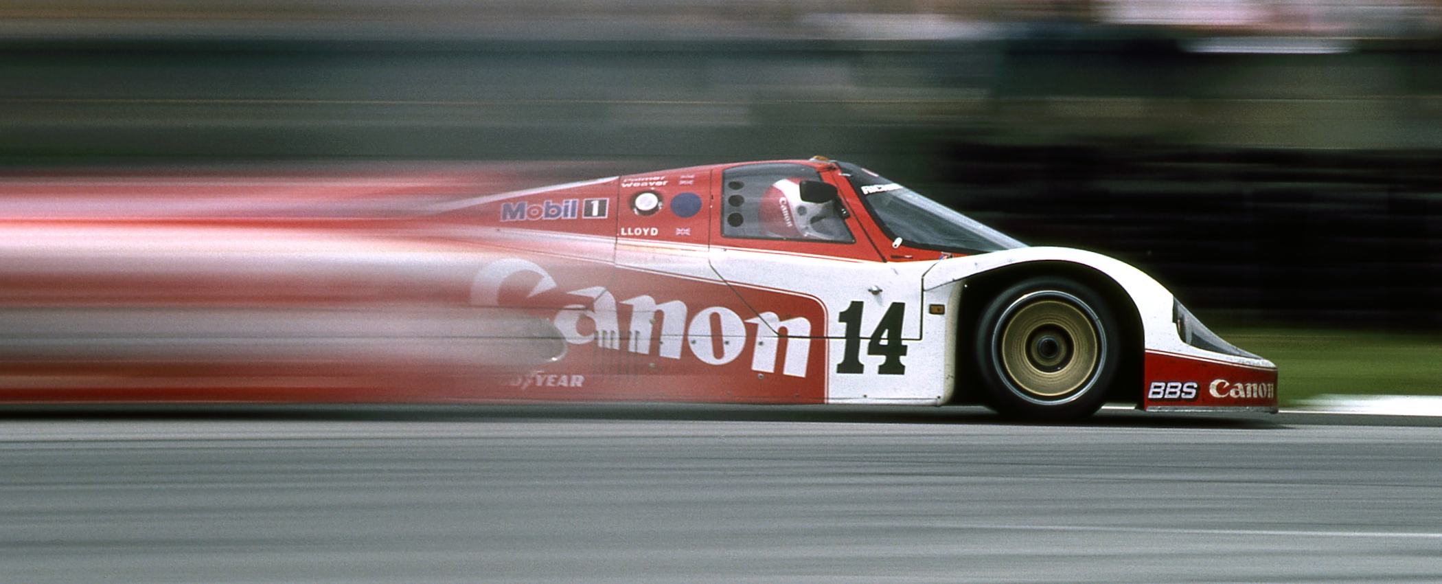 The '24h of Le Mans 1985' runner-up Porsche 956C of Jonathan Palmer (GB), James Weaver (GB) and Richard Lloyd (GB). Panned by myself with 1/60s by using a Canon New F-1 LA1984 with FD 1.2/85L lens equipped with a so-called 'Speed Filter' by the French company Cokin.